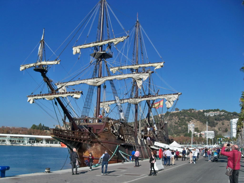 Replica of Galeón Andalucía in the port of Málaga, Spain.